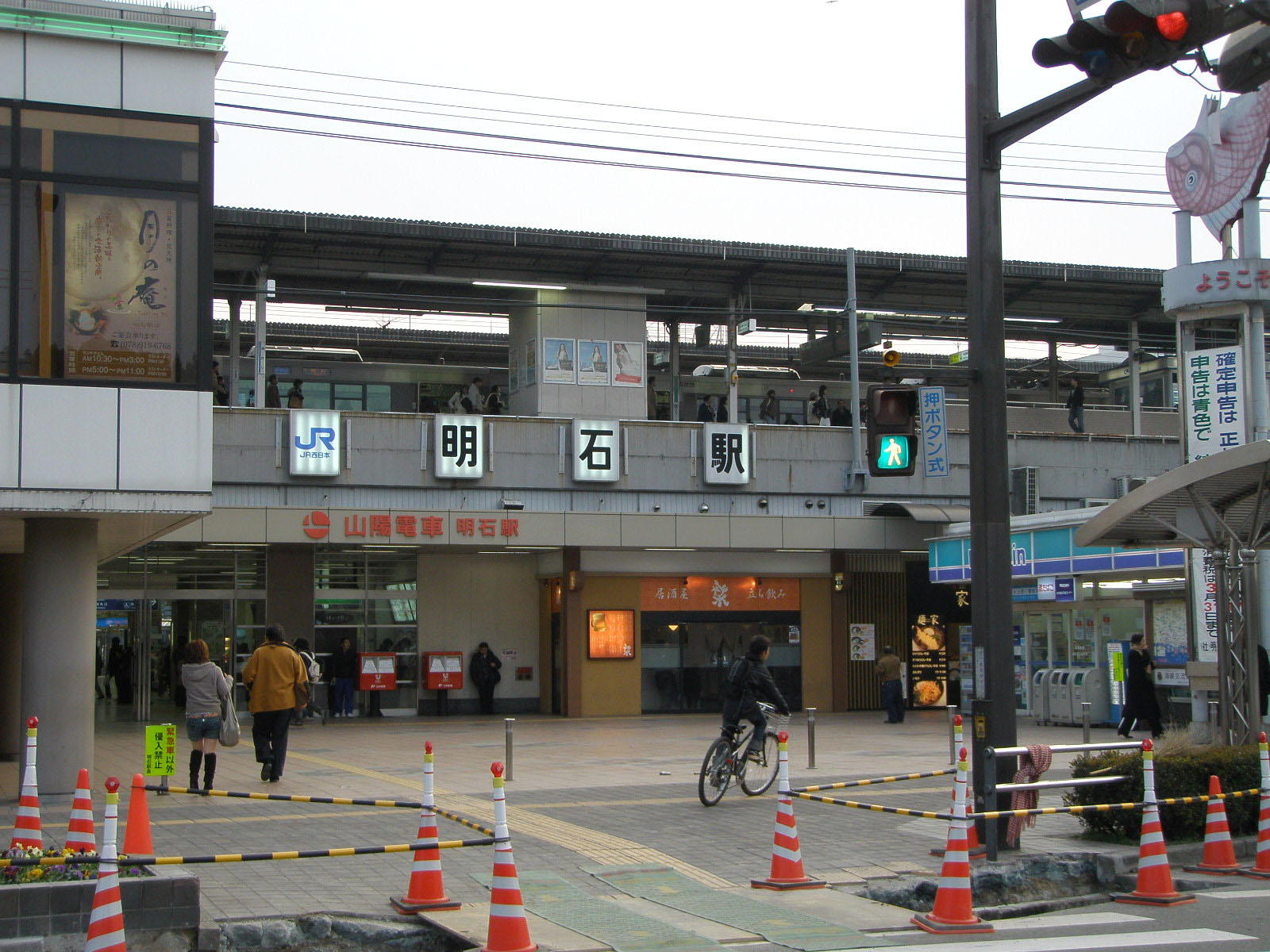 West Japan Railway Sanyō Main Line（JR Kōbe Line） Akashi Station & Sanyō Electric Railway Main Line Sanyō-Akashi Station Building North Gate